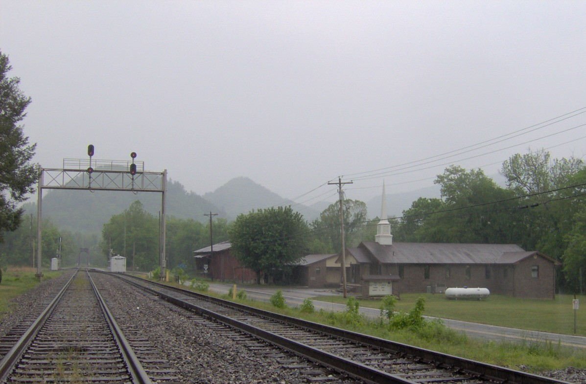 Del Rio, Tennessee. The foothills of the Eastern Smokies are in the distance. The church's sign reads "Without Jesus Eternity is Hell."